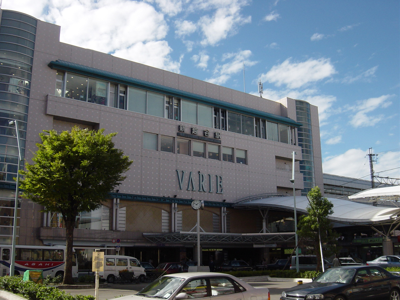 East Exit of Shin-Koshigaya Station. The building called "Varie" ia part of the station.